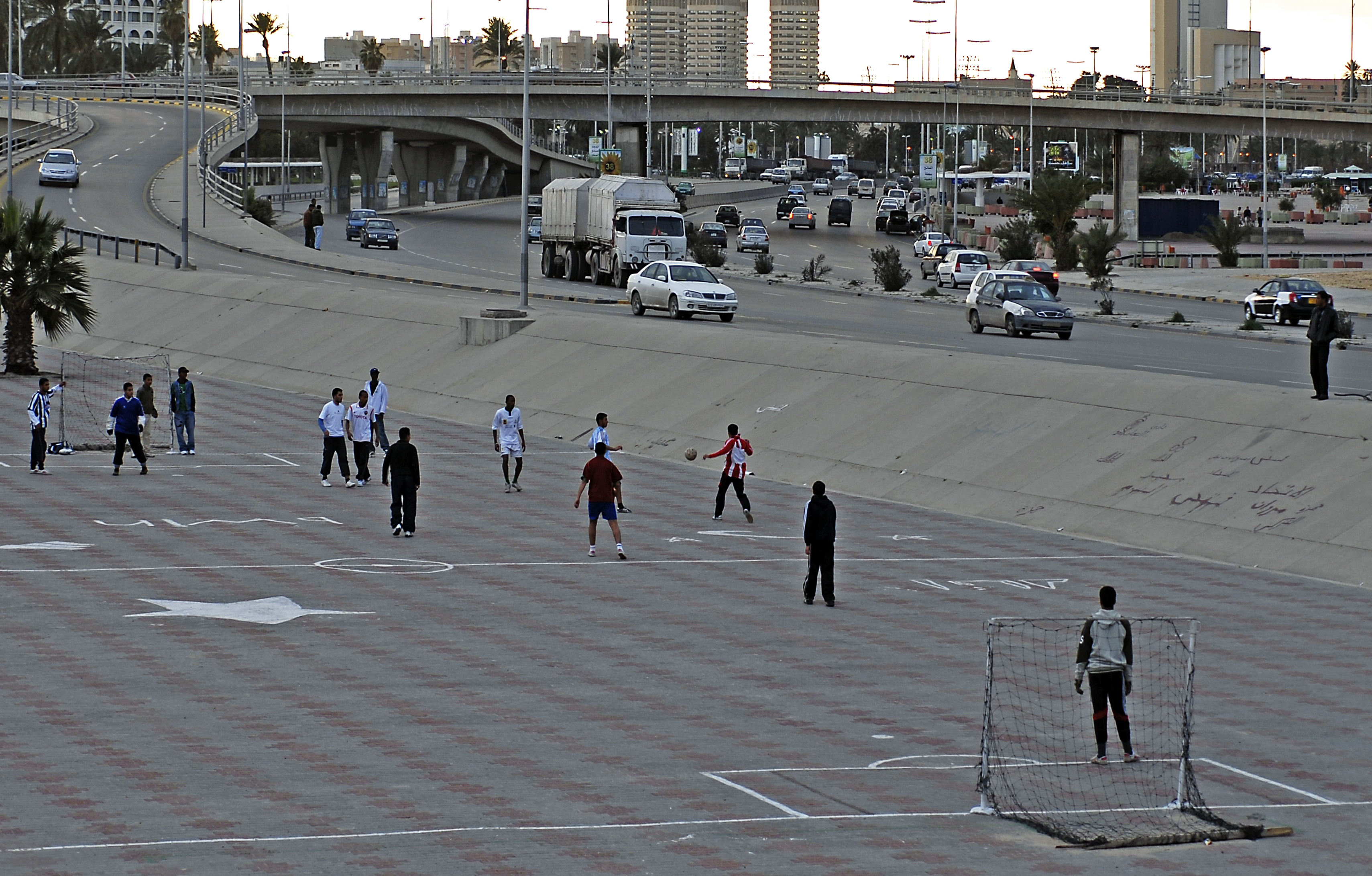 From left to right in the background, the Al-Kabir Hotel, the That-El-Emad tower complex, and the Corinthia Bab Africa Hotel are visible. In the foreground, a series of flyovers overlap a highway, with two of Libya's black and white taxis visible. Also in the foreground are a group of teenagers playing football. Street pitches are common in Libya especially near highways and flyovers.